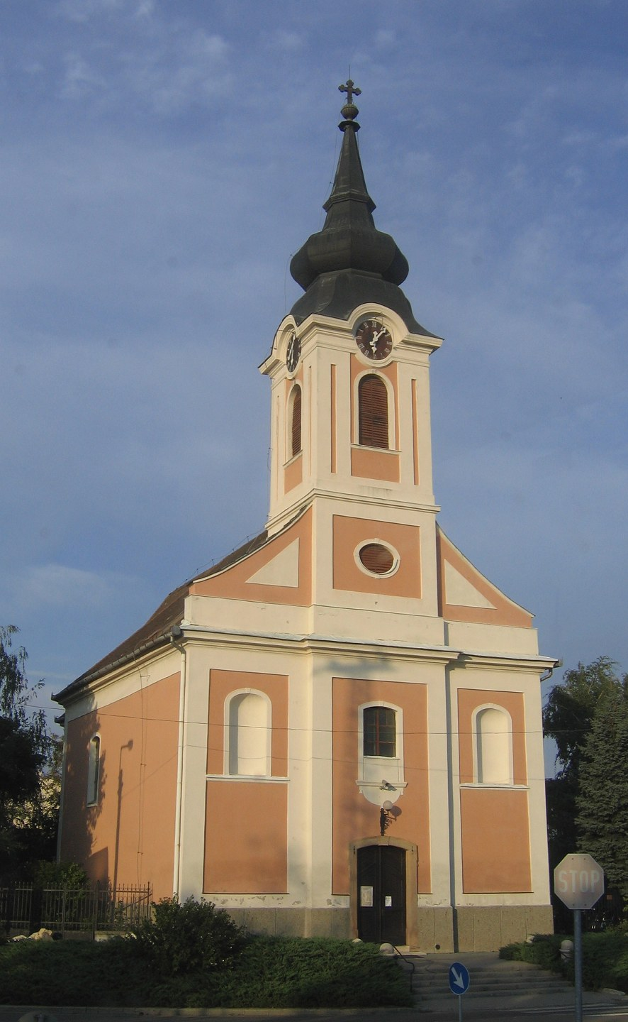 Újhartyán, Hungary, Roman Catholic Church Saint Barbara, built 1776